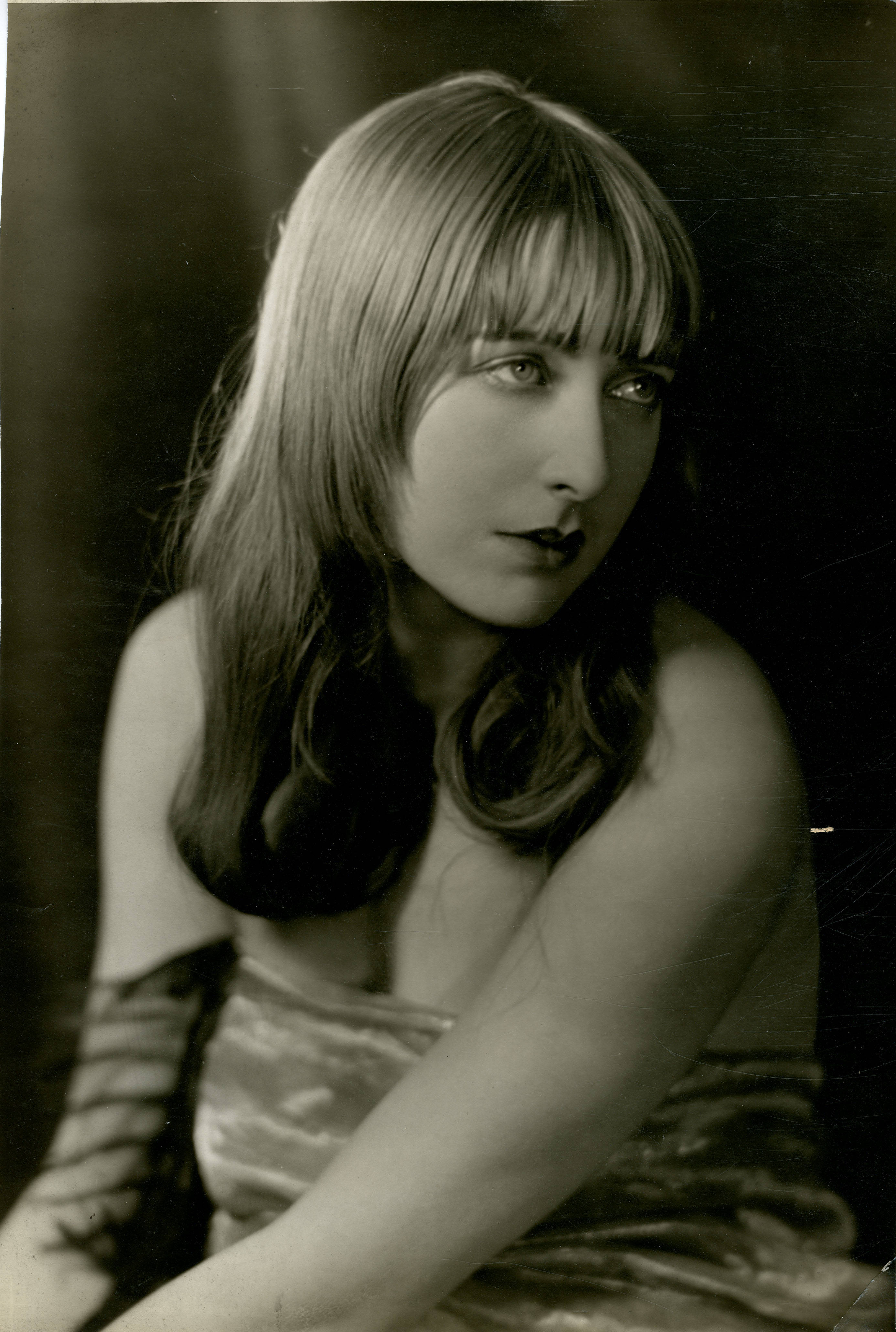 Andrée Lafayette Subjects: actresses